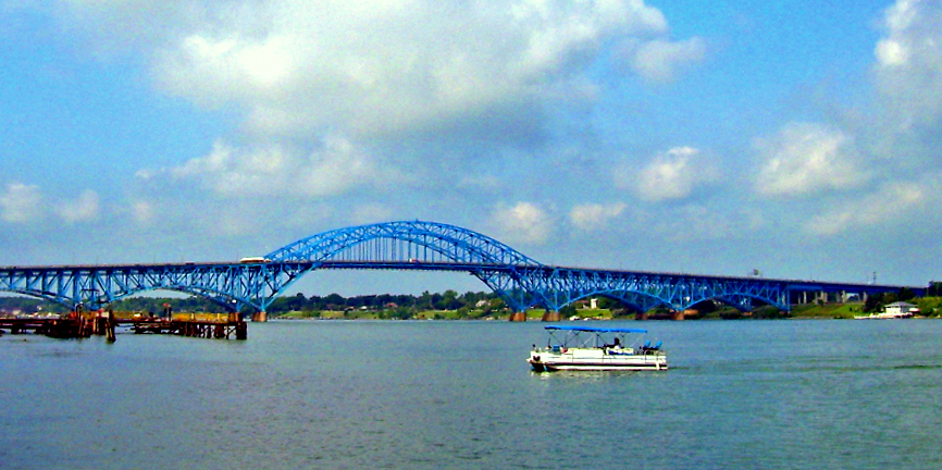 Photographed by Daniel Case 2006-07-31